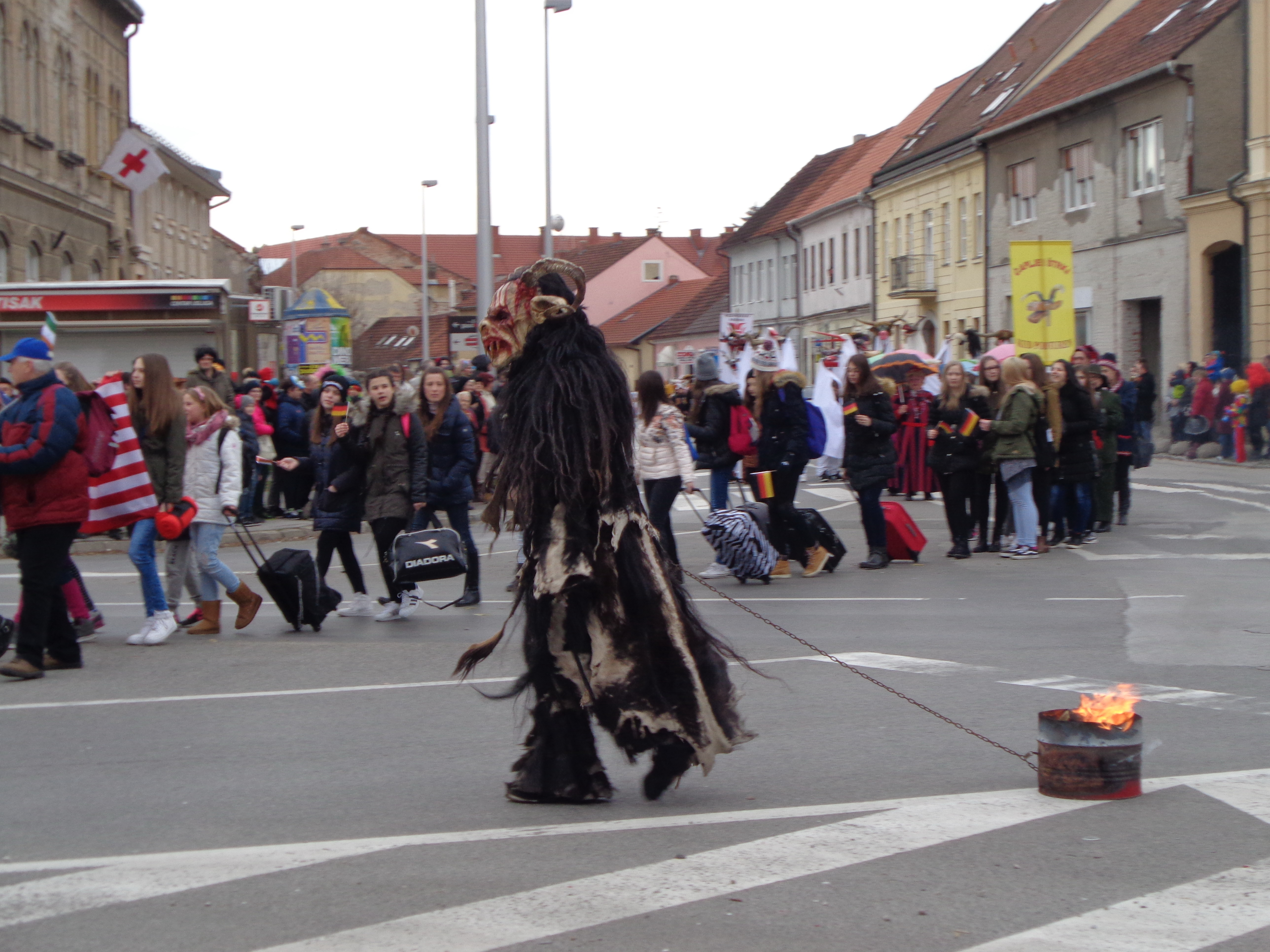 Medjimurje Carnival 2016 (Croatia) - Krampus of Sveti Martin na Muri village with a fire container